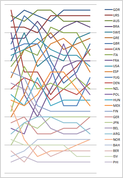 1976 FINN Daily standings during the Olympic sailing event